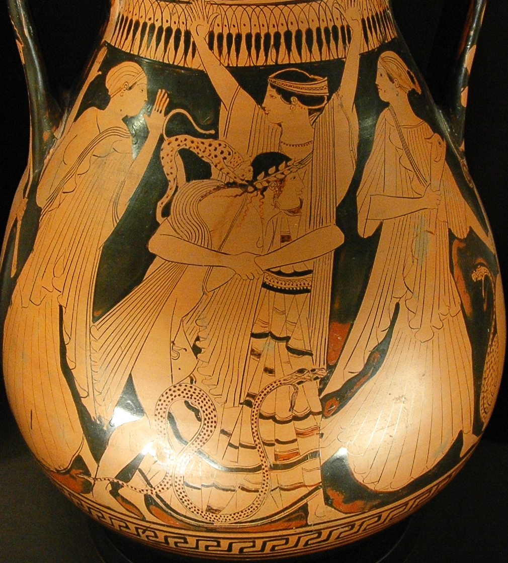 Peleus wrestling Thetis and holding her as she transforms into a snake. Side A from an Attic red-figure pelike, ca. 460 BC. Found in Bomarzo.